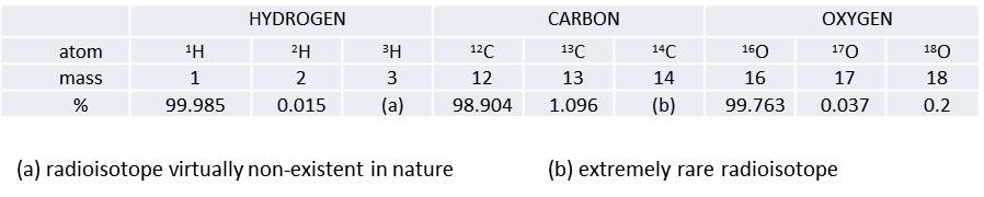 Natural existence of hydrogen, carbon and oxygen